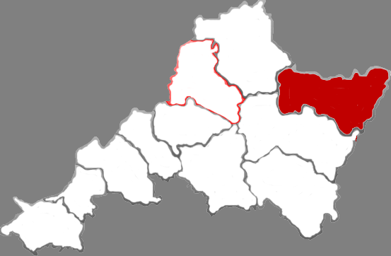 Location of Xiyang county in JinzhongCity, China